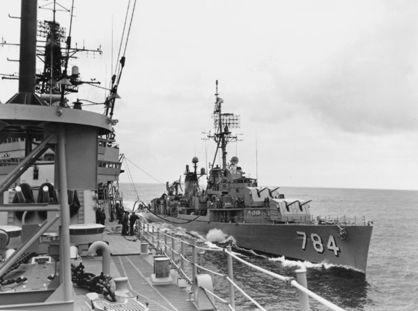 The U.S. Navy radar picket destroyer USS McKean (DDR-784) refueling from the guided missile cruiser USS Oklahoma City (CLG-5) in 1961.